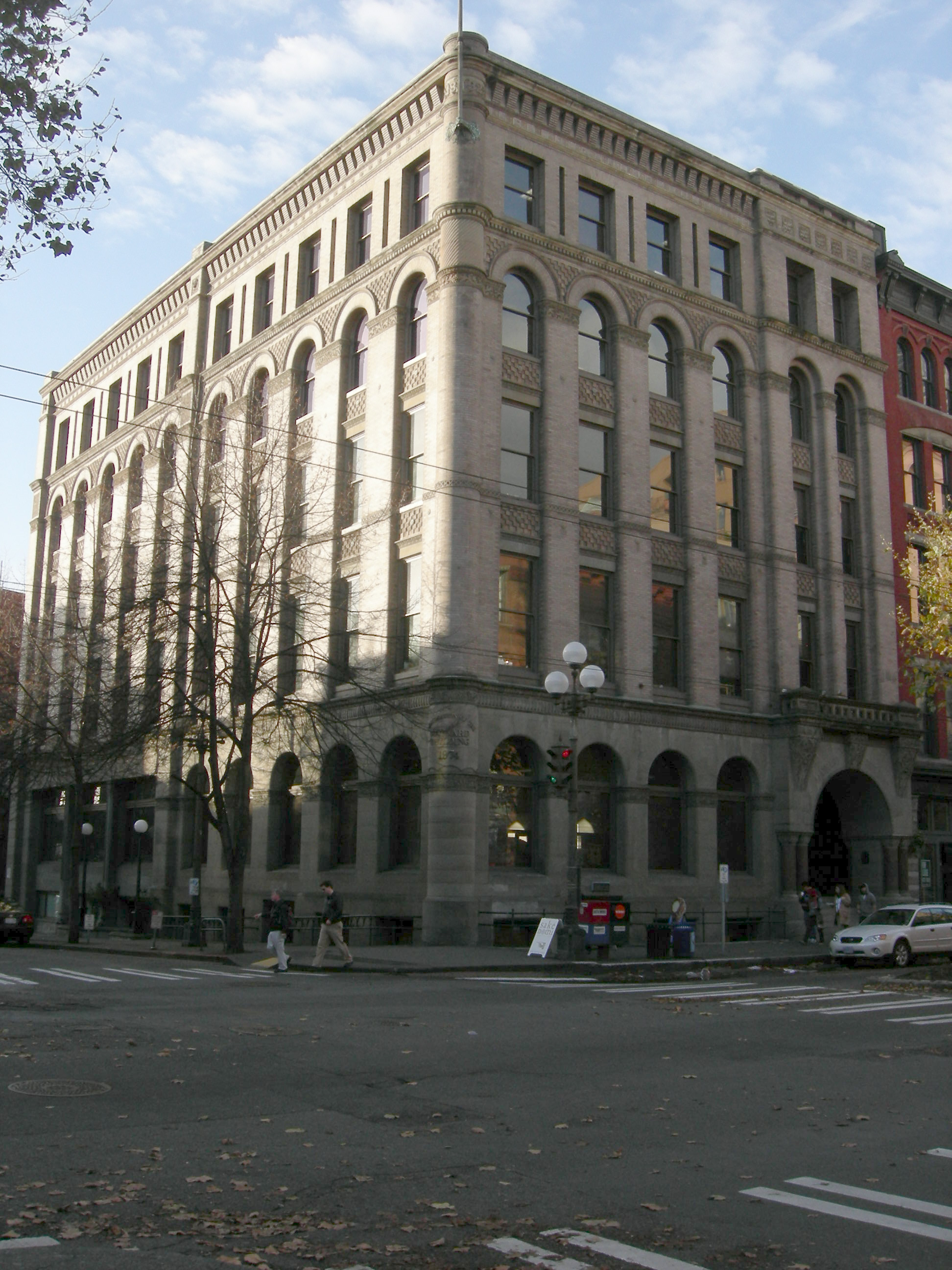 The Maynard Building, 119 First Avenue South in the Pioneer Square neighborhood, Seattle, Washington. The building was originally (1892) the Dexter Horton Building (a name that was later preempted by a 1920s office building a few blocks away), home to the Dexter Horton Bank, one of the banks that eventually merged to form Seattle First National Bank (Seafirst), and were eventually absorbed into the Bank of America. See Summary for 119 1st AVE / Parcel ID 5247800035, Seattle Department of Neighborhoods for more discussion of the building. This is the same building, even though they accidentally omitted "South" from the address.